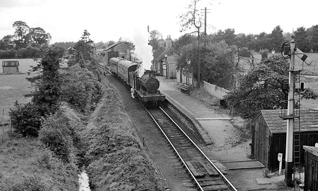 Fairford Station, View westward, towards buffer-stops; ex-Great Western terminus of branch from Oxford via Witney, which closed completely on 18/6/62. (In fact the line continued for a few hundred yards further, as it had been intended to go to Cirencester). The train is about to leave for Oxford, hauled by a 22XX class 0-6-0.